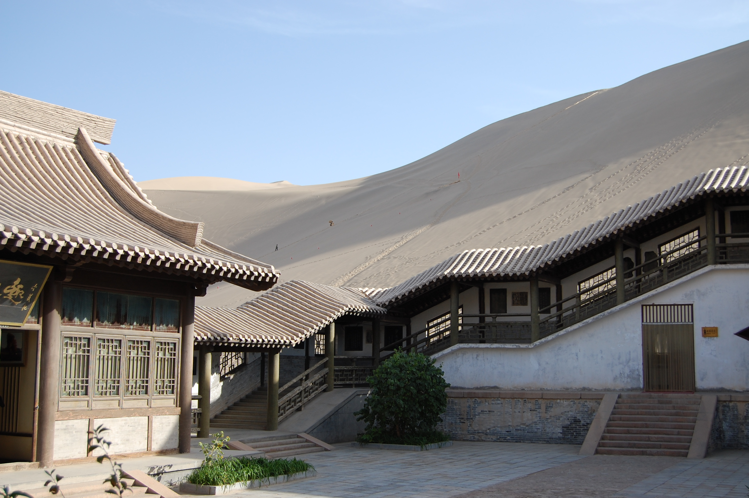 Surroundings of the Crescent Lake in Gobi Desert near Dunhuang, Gansu Province, China